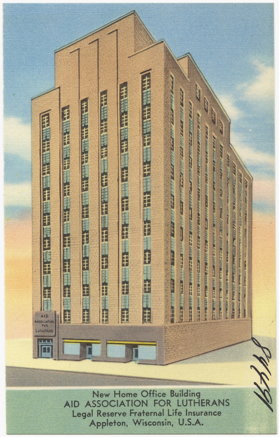 File name: 06_10_022690 Title: New home office building, Aid Association for Lutherans, Legal Reserve Fraternal Life Insurance, Appleton, Wisconsin, U. S. A. Created/Published: J. A. Fagan Publishing Co., Madison, Wis. Date issued: 1930 - 1945 (approximate) Physical description: 1 print (postcard) : linen texture, color ; 3 1/2 x 5 1/2 in. Genre: Postcards Subject: Commercial facilities Notes: Title from item. Collection: The Tichnor Brothers Collection Location: Boston Public Library, Print Department Rights: No known restrictions